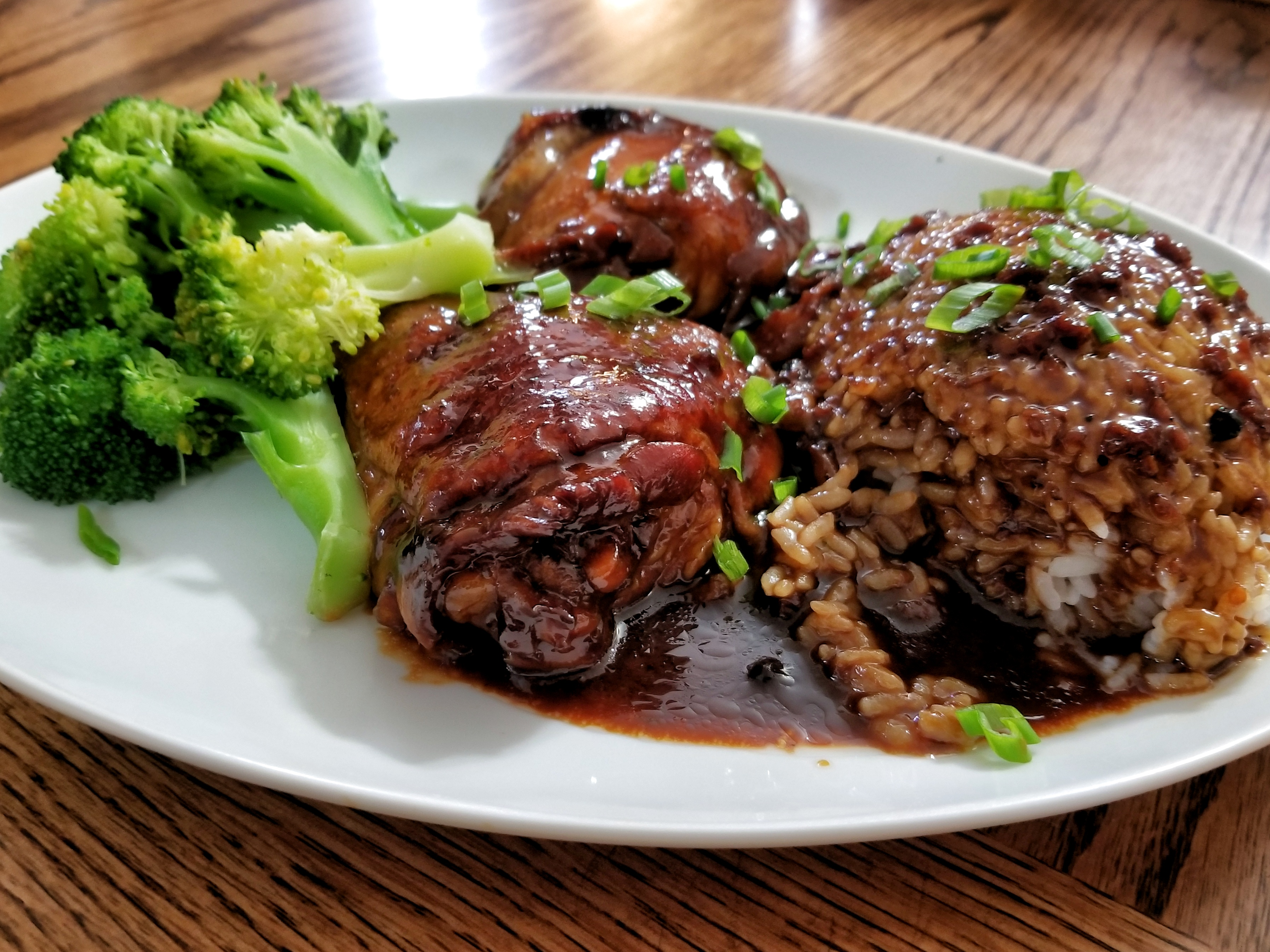 Chicken adobo (Philippines)